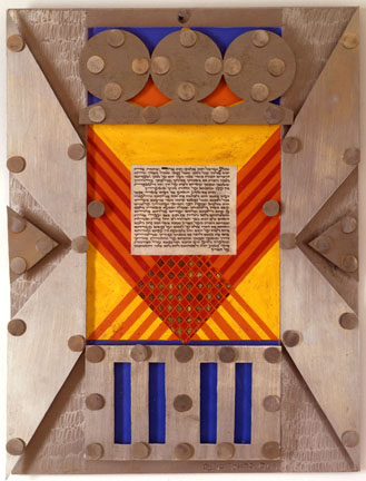 Mira Schor author, full permission